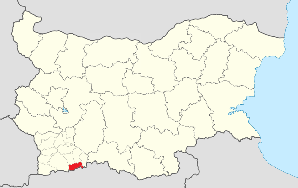 Location map of Hadzhidimovo Municipality within Bulgaria and Blagoevgrad province